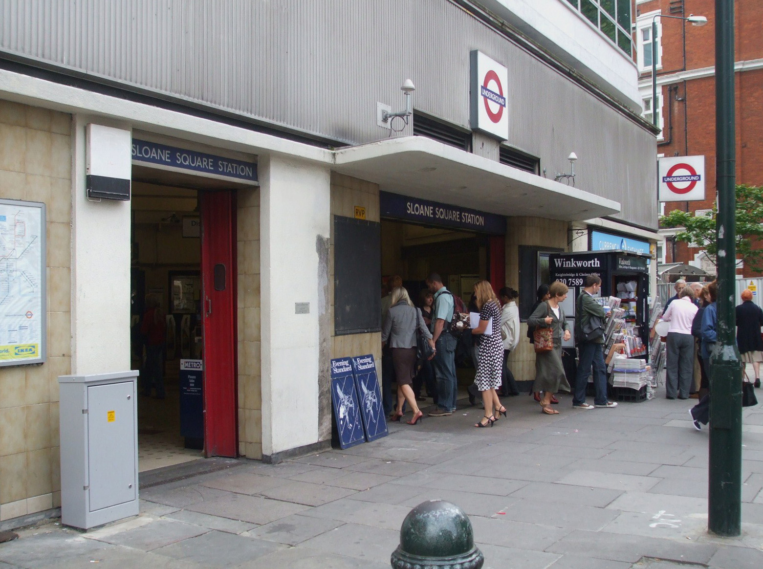 Sloane Square tube station entrance